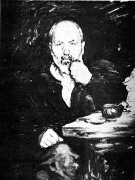 Portrait Louis Noir (1837-1901)